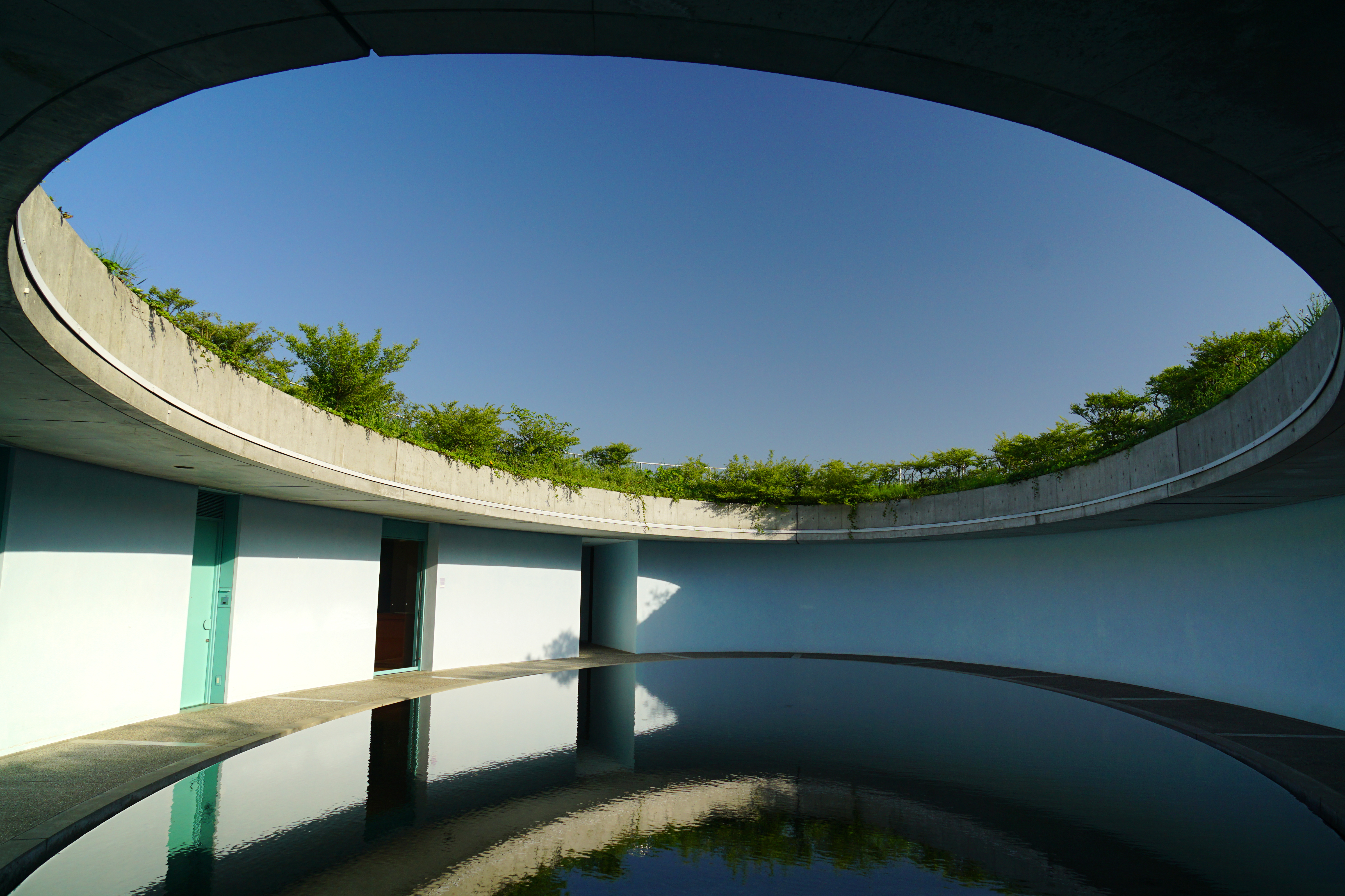 Benesse House "Oval" of Benesse Art Site Naoshima in Naoshima, Kagawa prefecture, Japan